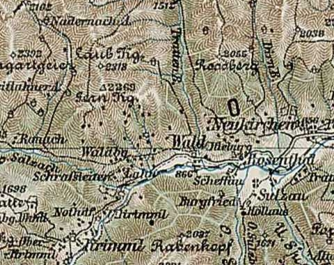 3rd Military Mapping Survey of Austria-Hungary - Bruneck; detail: Wald (im Pinzgau)